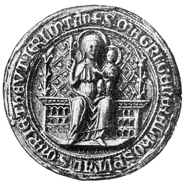 Siegel des Hochmeisters des Deutschritterordens. S(igillum) Mag(ist)ri General(is) Hospital(is) S(ancte) Marie Theut(onicorum) Ier(oso)l(o)m(i)tan(i). Seal of the Grand Master of the Teutonic Order. The seal dates to the 13th century, and was attributed by tradition to the order's second Grand Master, Otto von Kerpen (r. 1200–1208). It was in use for more than 200 years, and was eventually replaced in 1498 by Grand Master Frederick, Duke of Saxony. Friedrich August Vossberg, Geschichte der preussischen Münzen und Siegel von frühester Zeit bis zum Ende der Herrschaft des Deutschen Ordens, 1843, p. 54, p. 191.